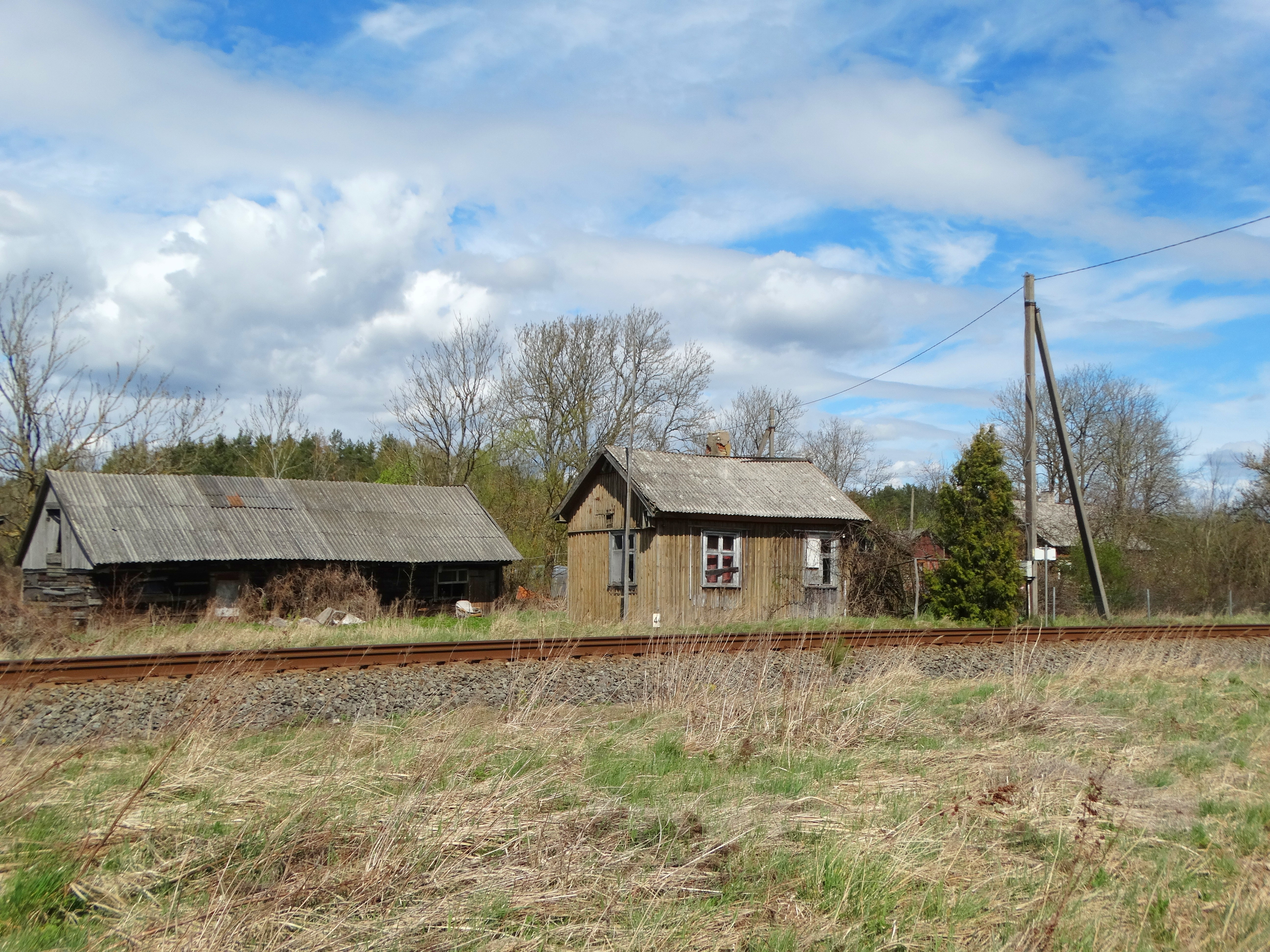 Staiginė, Tauragė district, Lithuania